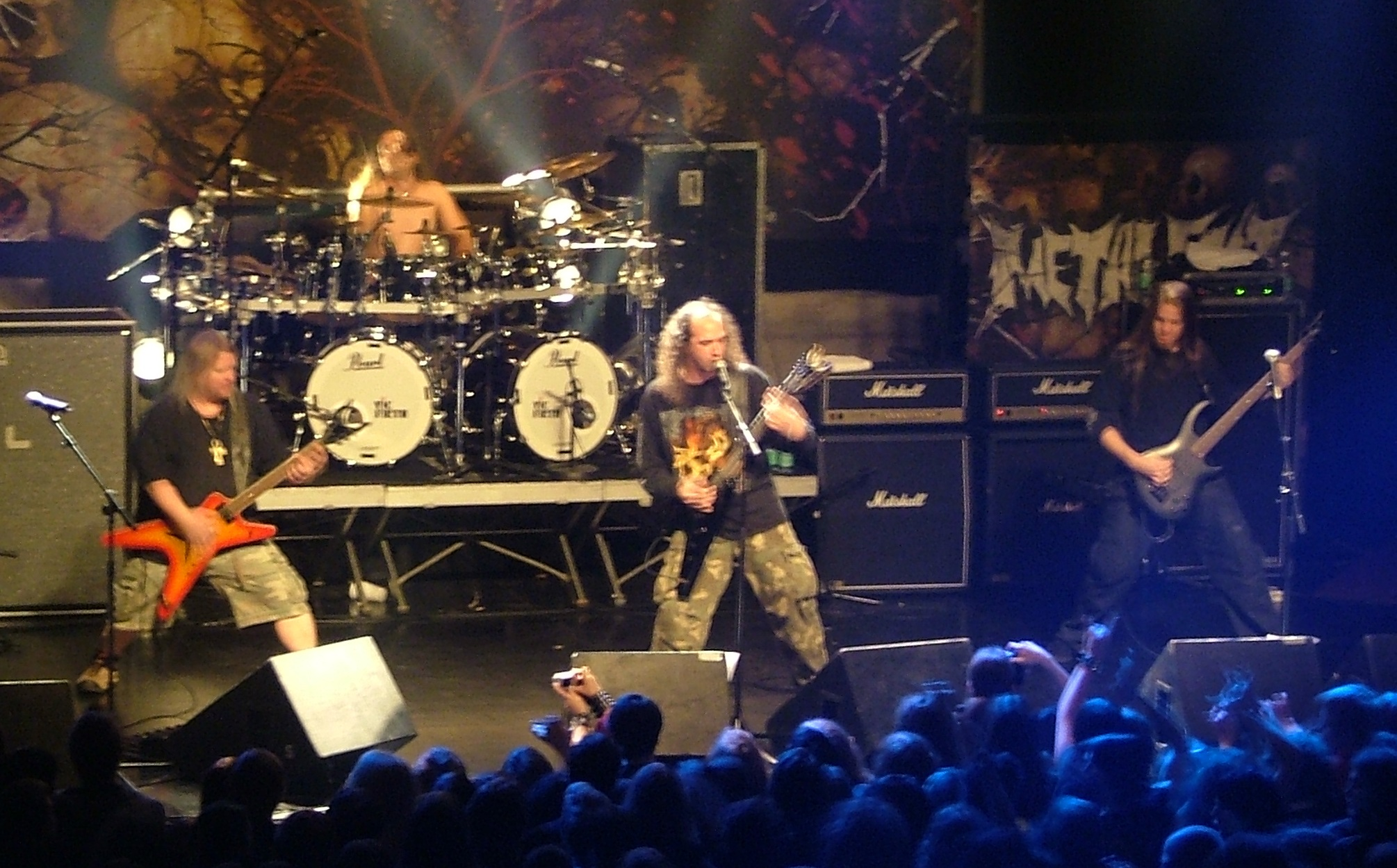 Nile playing live at Metalfest in 2007